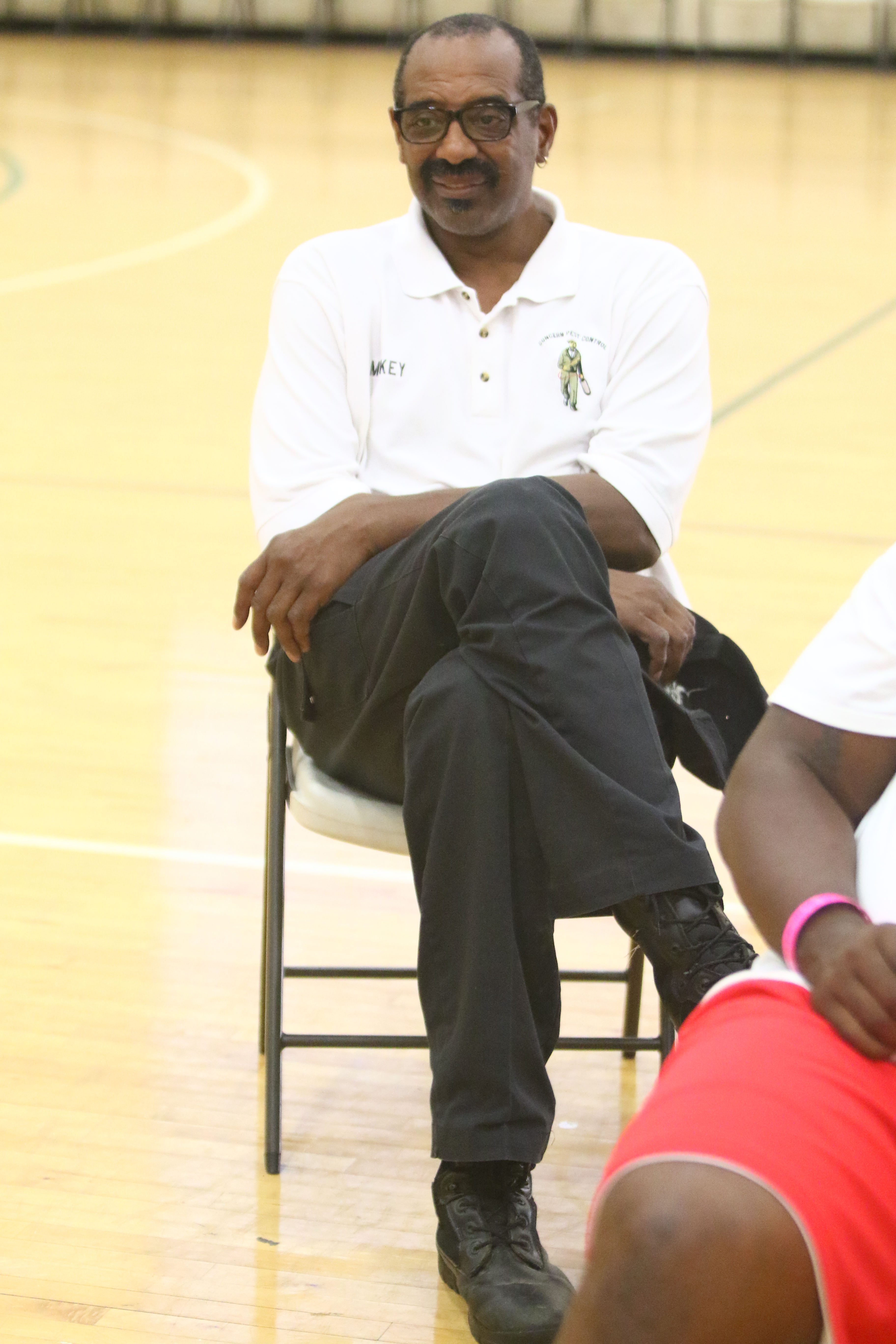 Mickey Johnson at a youth basketball clinic in Chicago at Quest Multisport